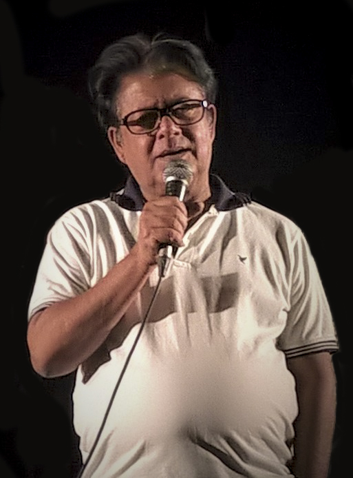 Mamunur Rashid at Rajshahi College, speaking about his historical play Rarang.